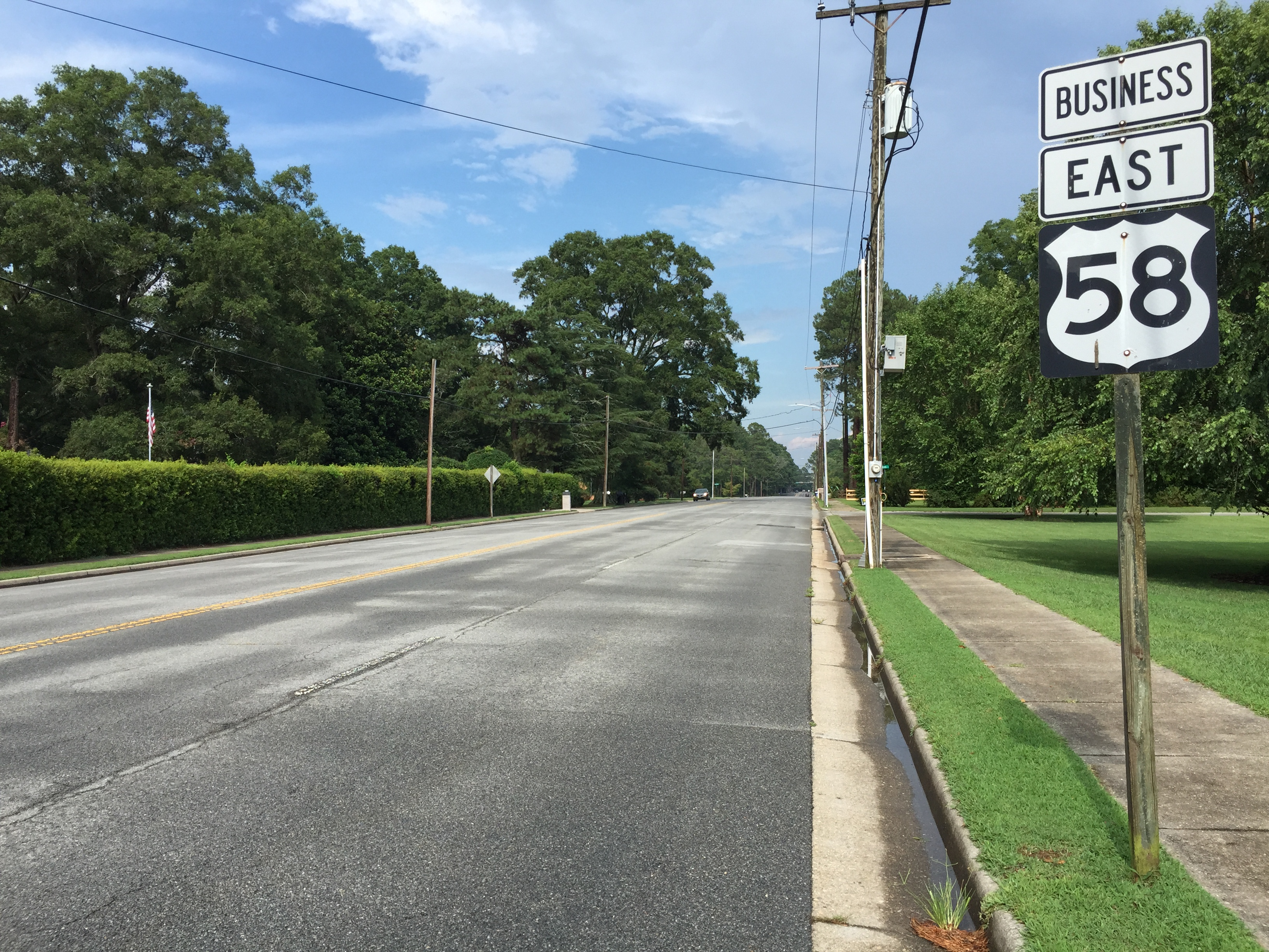 View east along U.S. Route 58 Business (Clay Street) at Queens Lane in Franklin, Virginia